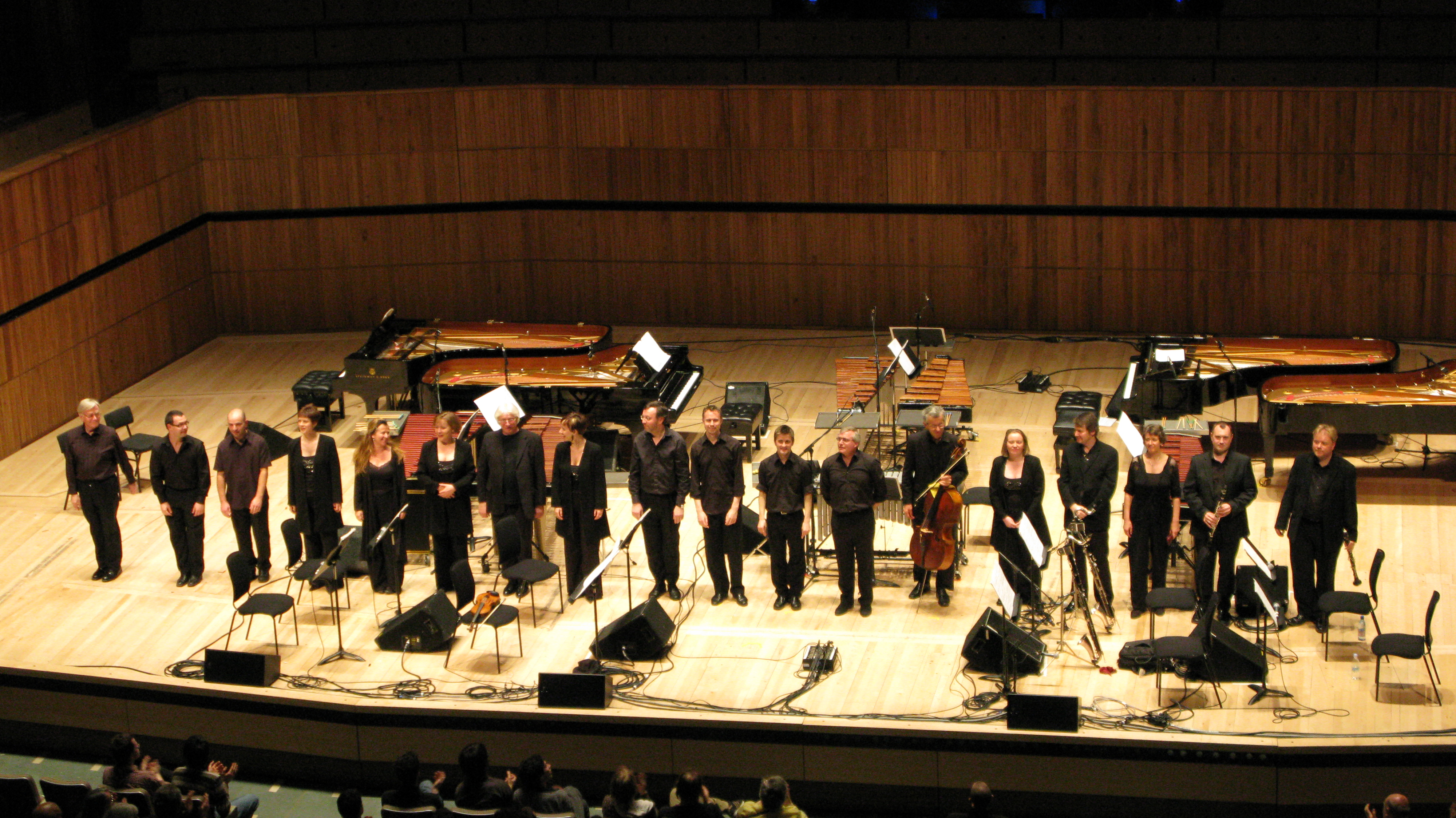 Performance of Music for 18 Musicians, Steve Reich, by the London Sinfonietta, Royal Festival Hall, London, 28 april 2008